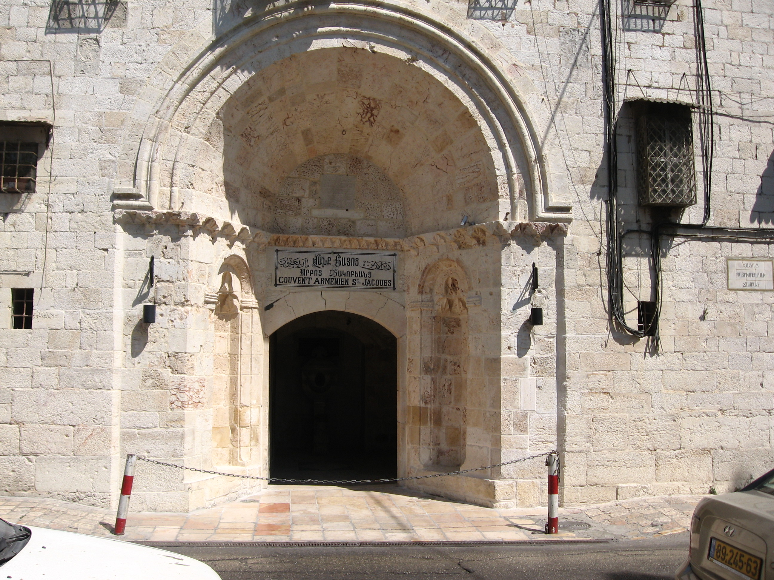 Cathedral of St. James, Armenian Quarter, old city Jerusalem.